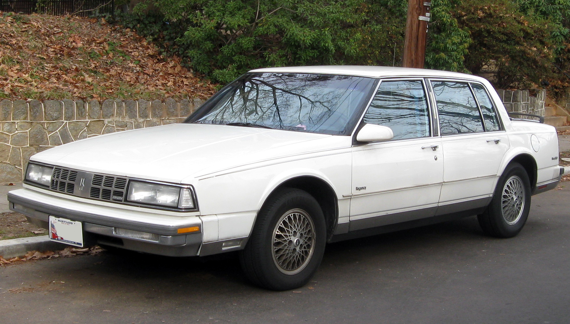 1988-1990 Oldsmobile Ninety-Eight photographed in Washington, D.C., USA.